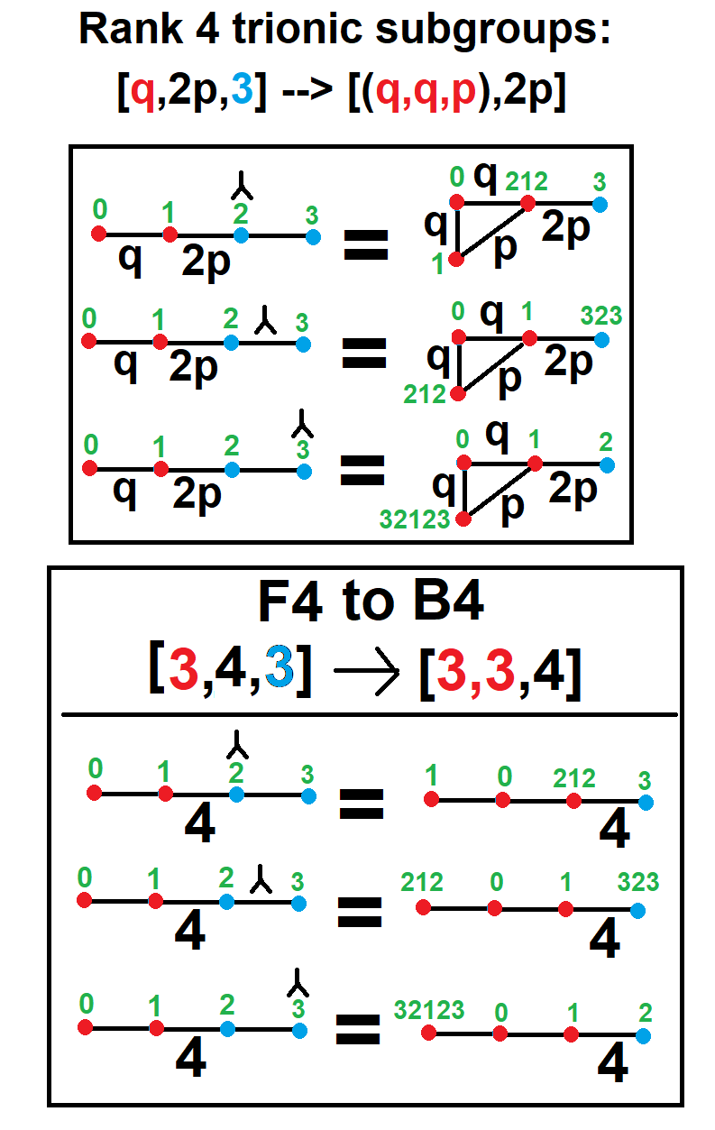 Rearranged File:Trionic subgroups rank 4.png